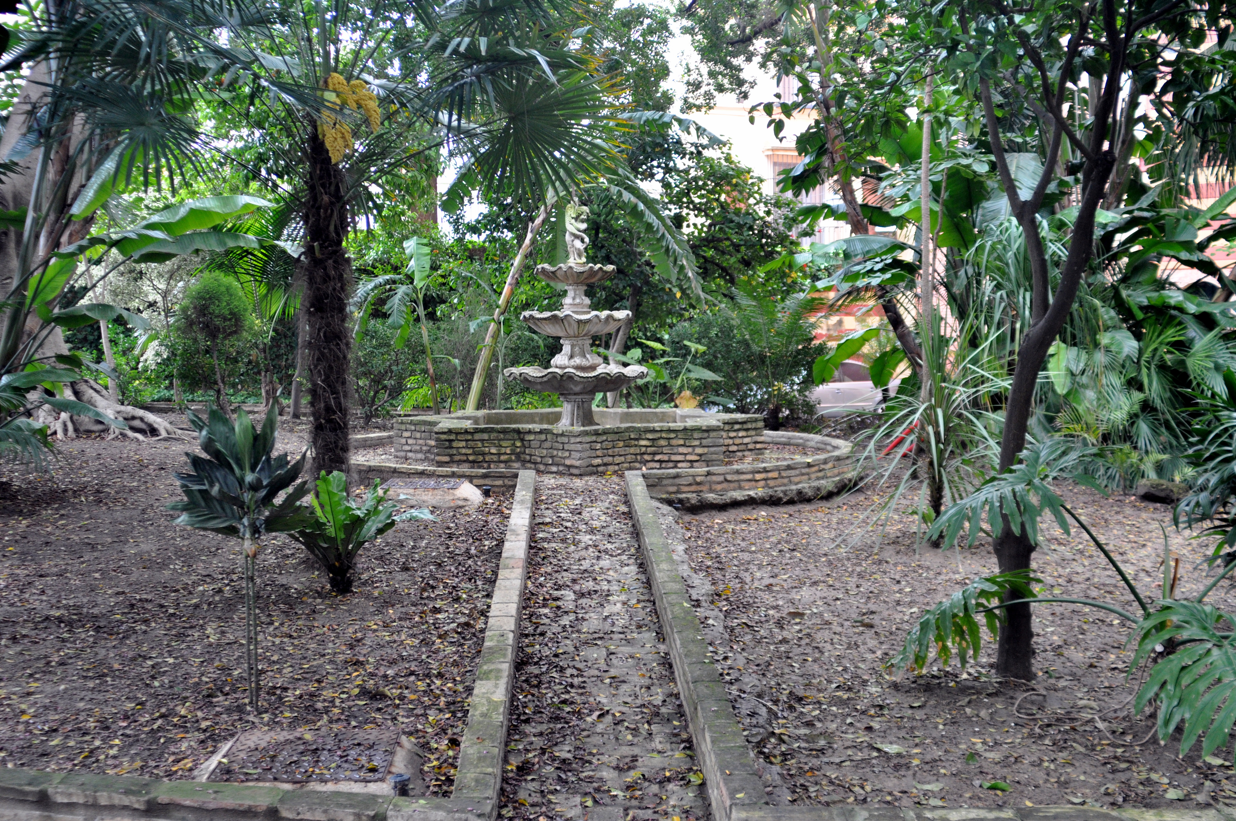 Gardens of the town hall of Sanlúcar de Barrameda, Cádiz, Spain. Ancient palace of the Dukes of Montpensier, 19th century.